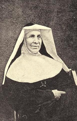 1897 History of St Margaret's Convent Edinburgh and auto biog of Ann Agnes Xavier Trail. Now part of Gillis Centre